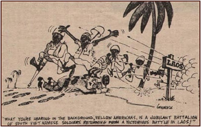 Lam Son 719 operation ending